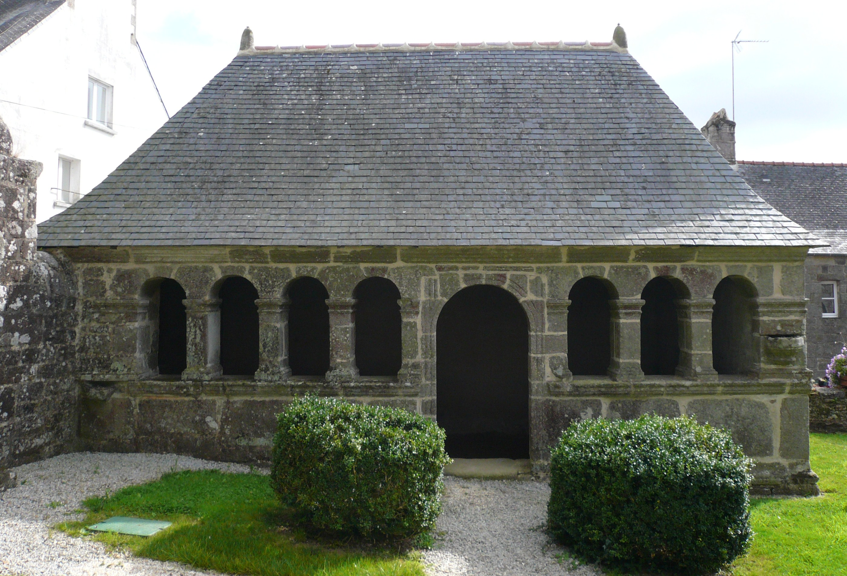 Former ossuary of Saint Gwenael's church in Ergué-Gabéric, Finistère, Brittany, France. .